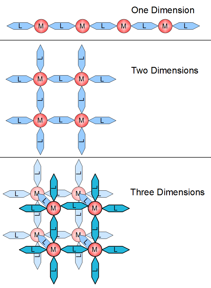 Simple diagram of dimensionality of coordination polymers with di-functional ligands and linkers and 2, 4, and 6 coordinated metal centers.